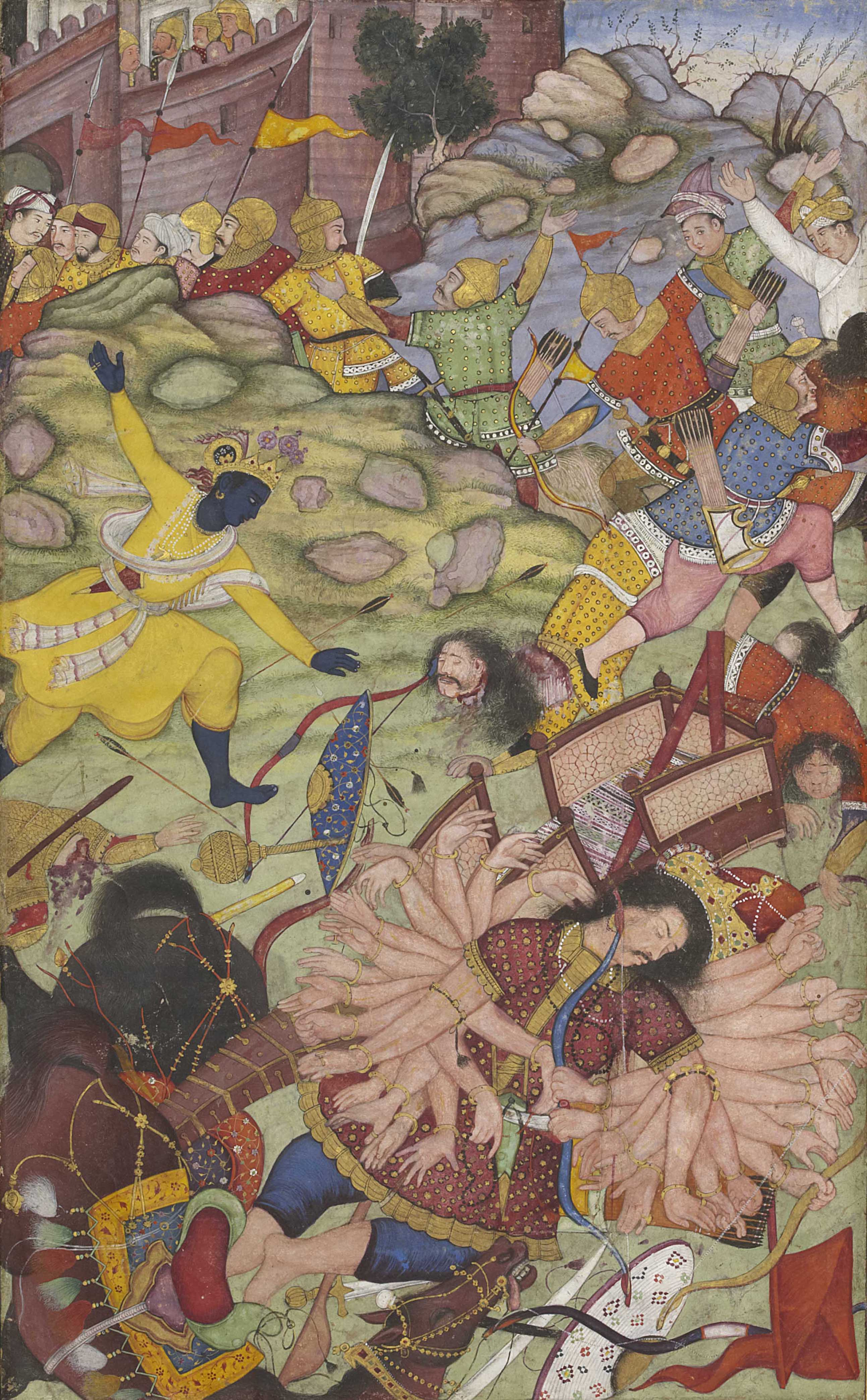 Harivamsa episode